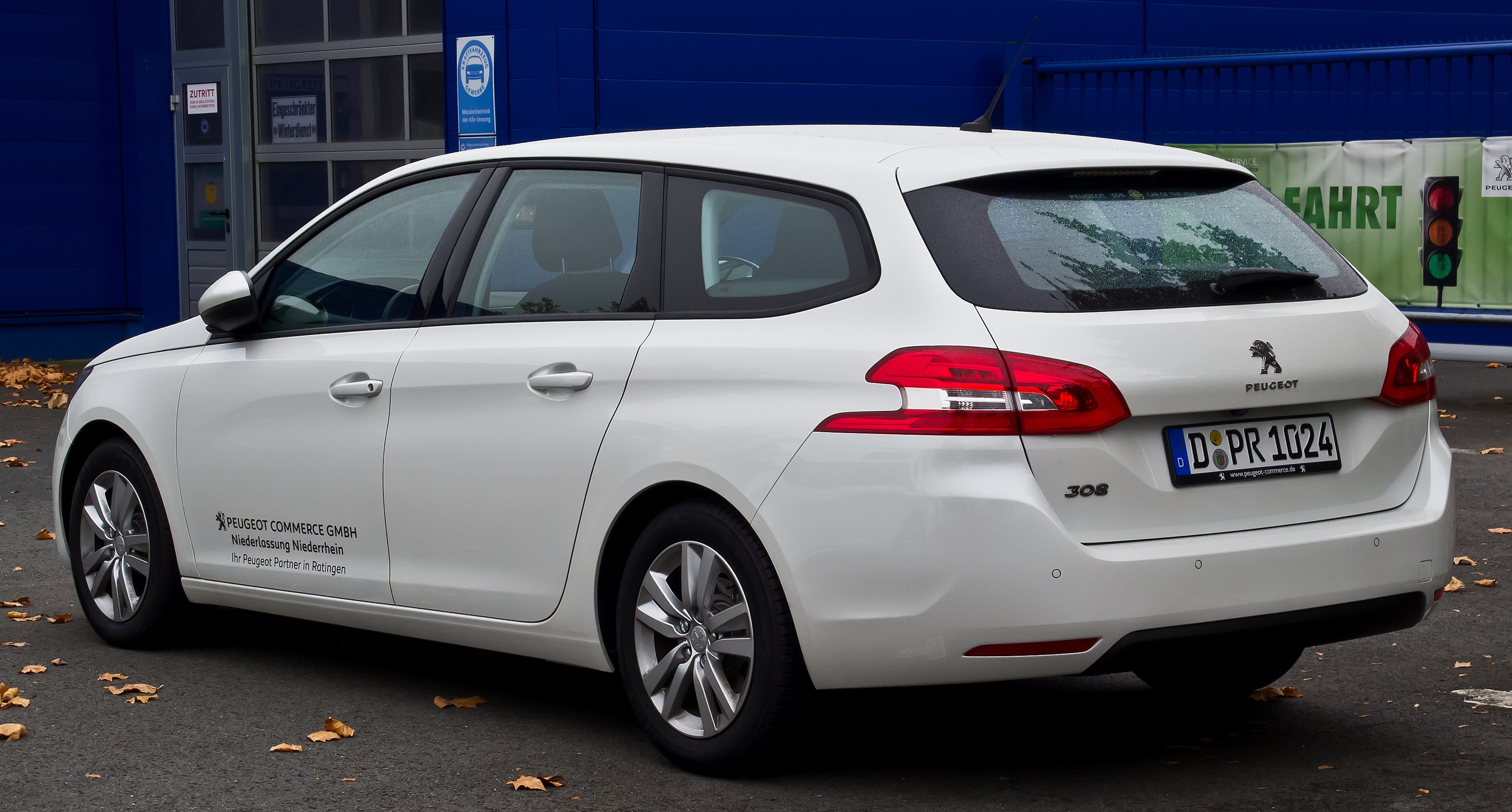 Peugeot 308 SW 130 e-THP 130 Active (II)